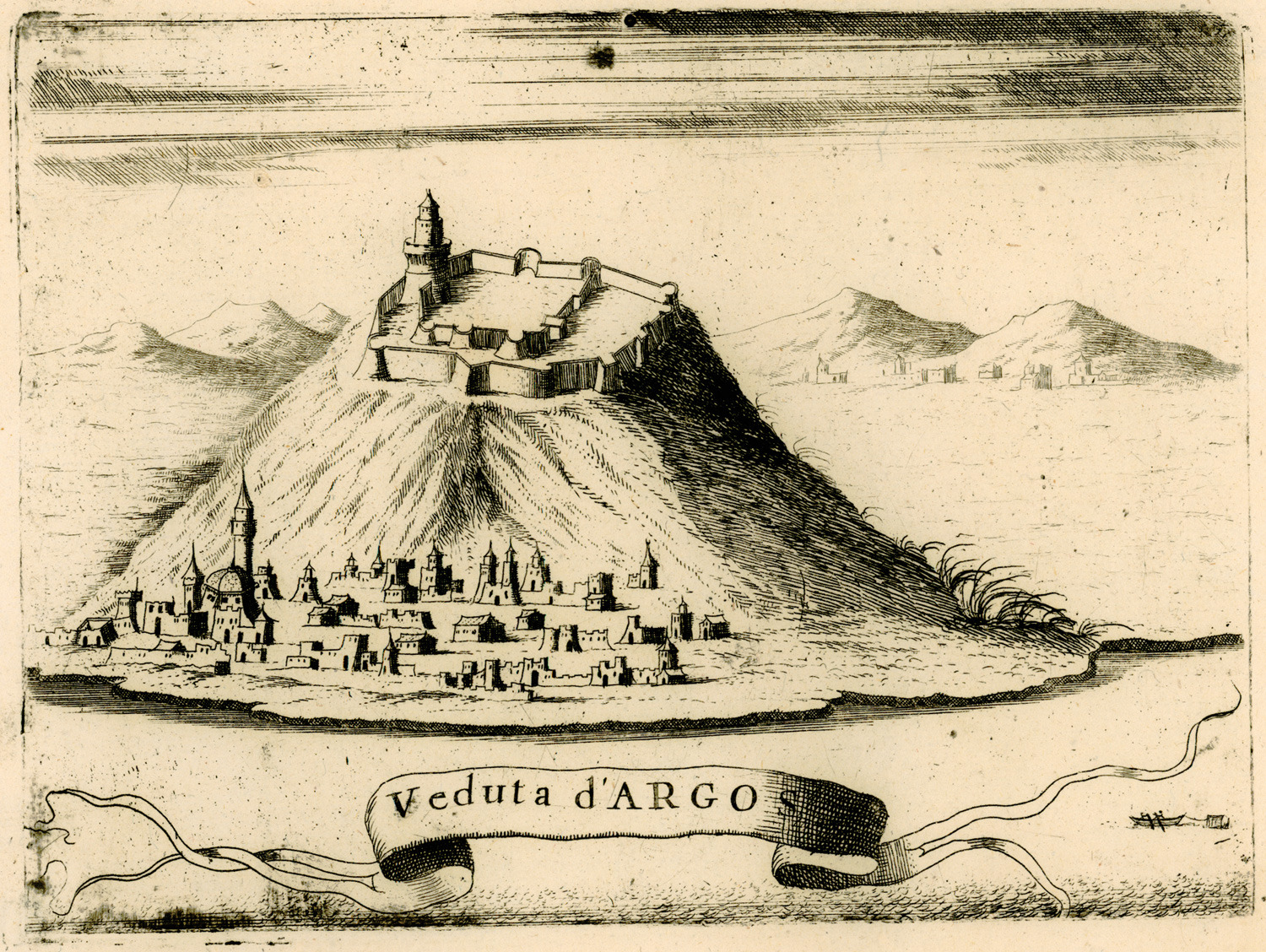 Vincenzo Coronelli - Repubblica di Venezia p. IV. Citta, Fortezze, ed altri Luoghi principali dell' Albania, Epiro e Livadia, e particolarmente i posseduti da Veneti descritti e delineati dal p. Coronelli, Venice, 1688.